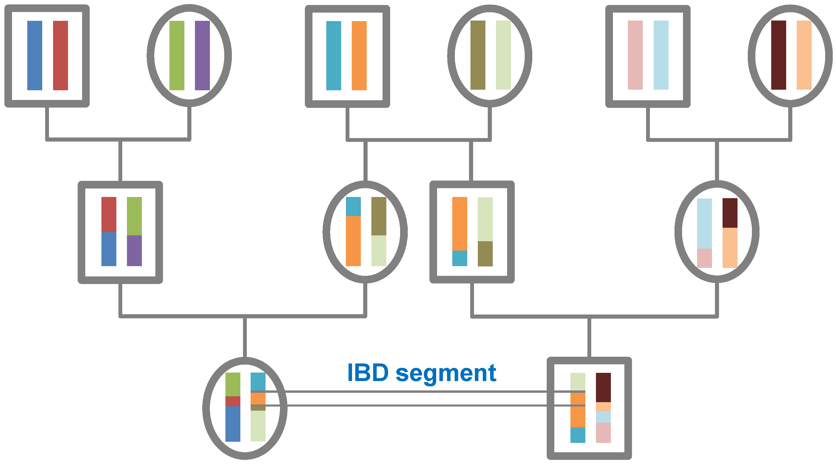 The origin of IBD segments is depicted via a pedigree of 12 individuals. Each box (male) and circle (female) represents an individual with two homologous chromosomes as bars. The top row shows three couples with their chromosomes colored differently. Due to crossing over, offspring inherit recombinant chromosomes of their parents. The first order cousins in the bottom row share one IBD segment (borders marked by grey lines). Both have inherited this IBD segment from the same individual, namely their grandfather (orange colored chromosome in the top row).